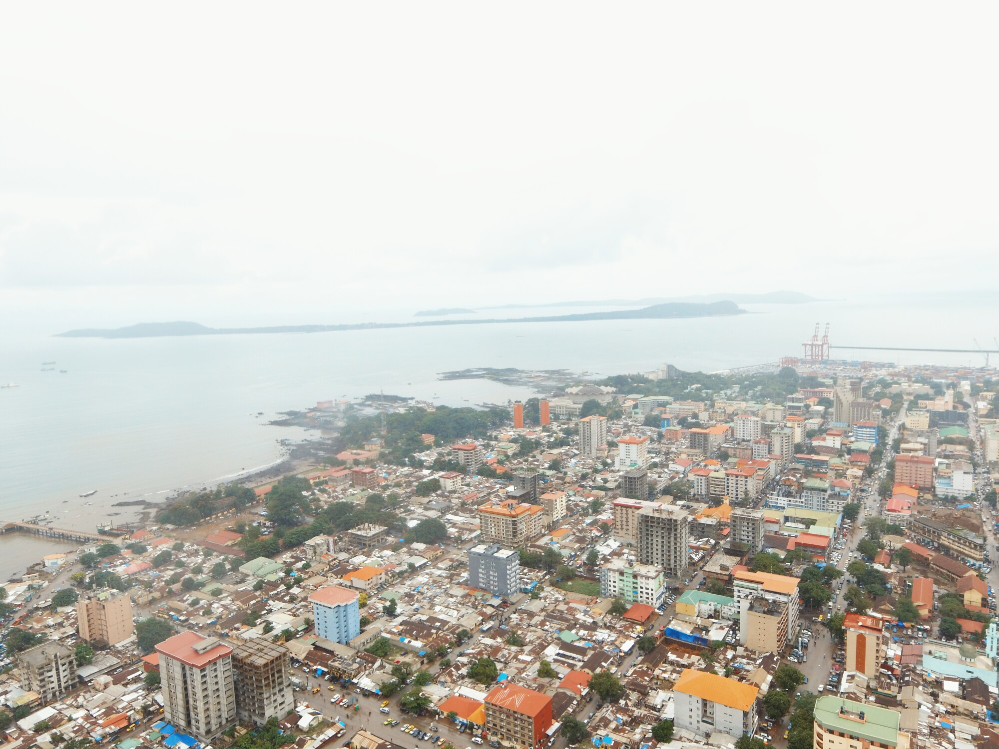 This is an image with the theme "Play" from: Guinea